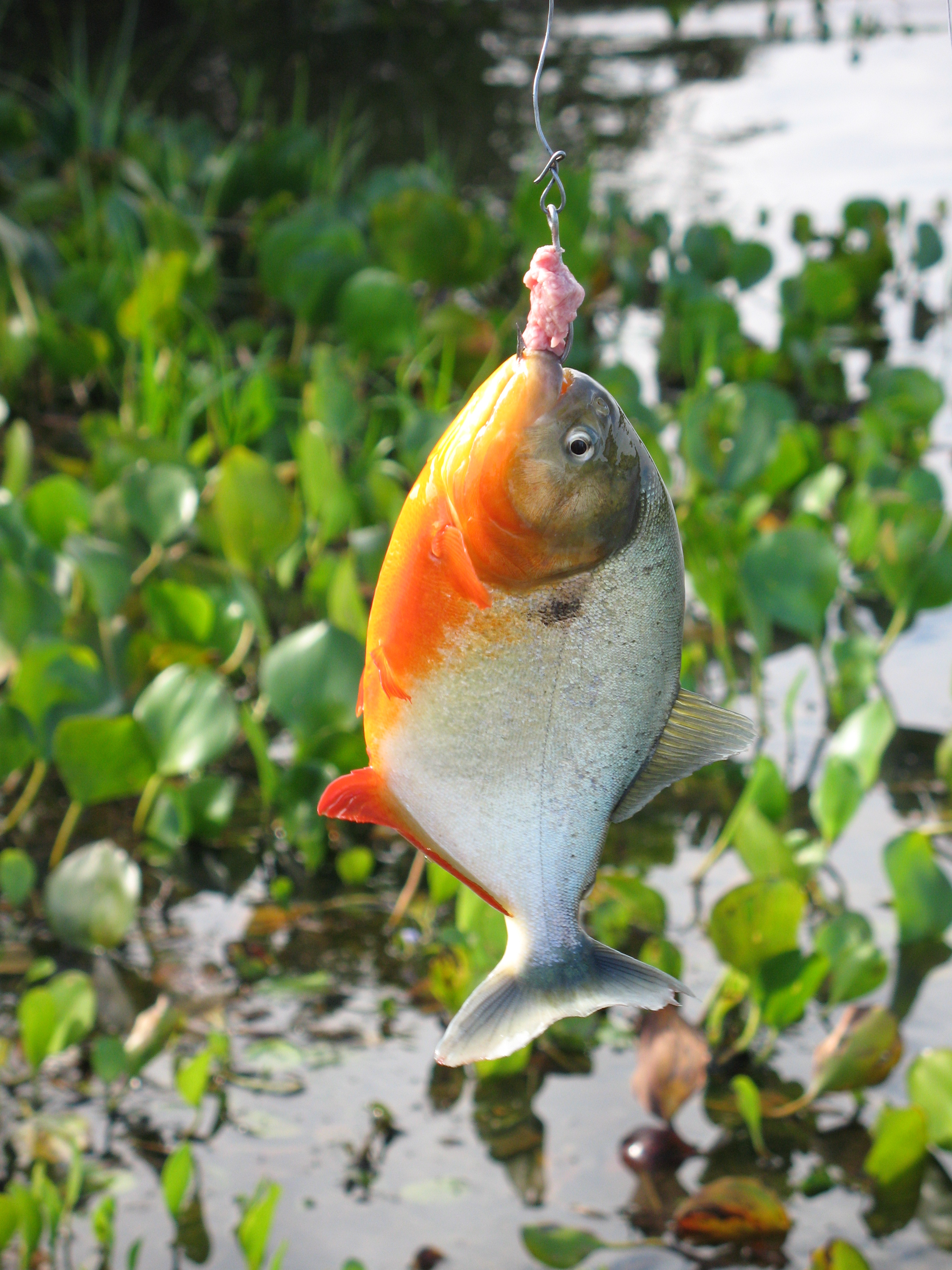 Angled piranha in Venezuela.